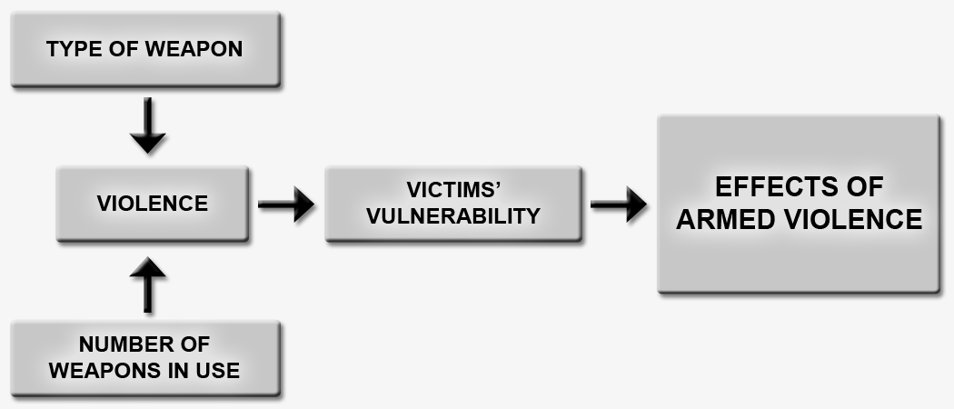 The ”Taback-Coupland model of armed violence” is used to generate data on the impact of armed violence and insecurity on people's lives and wellbeing.